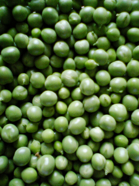 Peas.